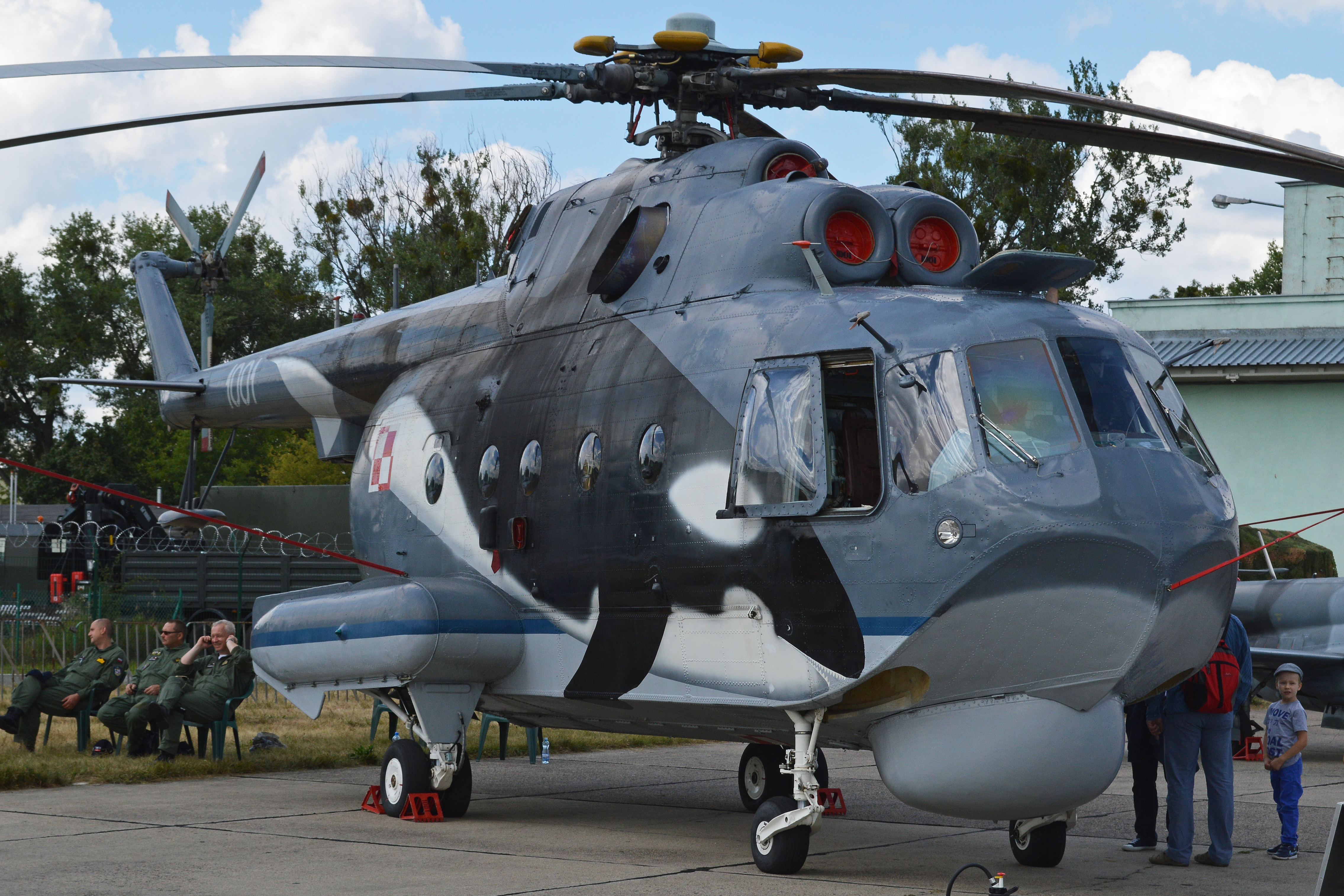 The Mil-14 was an anti-submarine development of the Mil-8 'Hip' with a boat-like hull similar to a Sikorsky Sea King. 230 have been built, ten of which are currently in Polish Navy service. The type has the NATO codename 'Haze-A'. c/n A1001. On static display at the 2013 Airshow at Radom Airbase, Poland. 24-8-2013